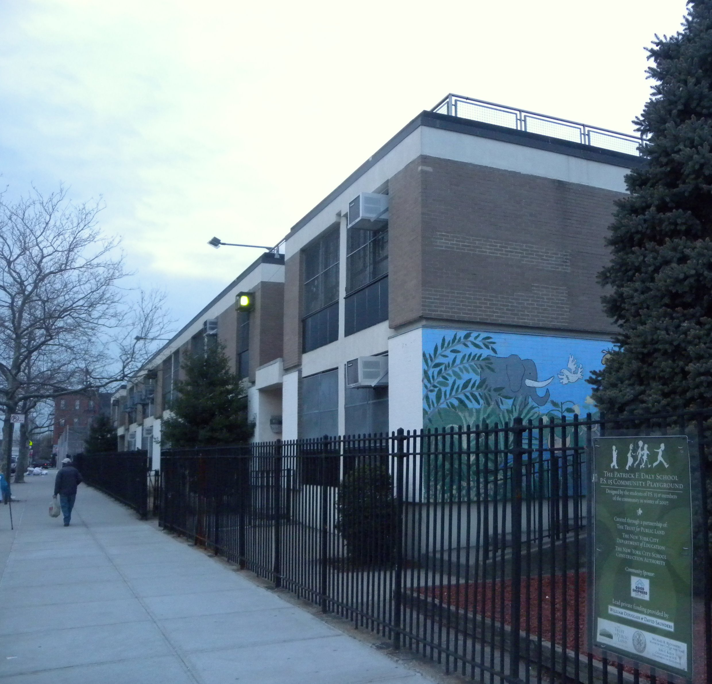 Looking north along Wolcott from Richards Street at PS 15 on a cloudy evening.